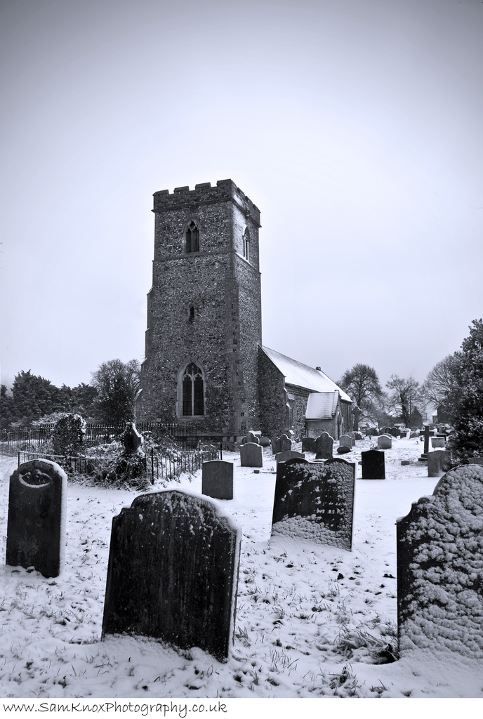 Parish church of St Mary Magdalene, Pentney, Norfolk, seen from the southwest in snow